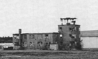 The former naval air station control tower at Sanford Municipal Airport, Sanford, Maine.